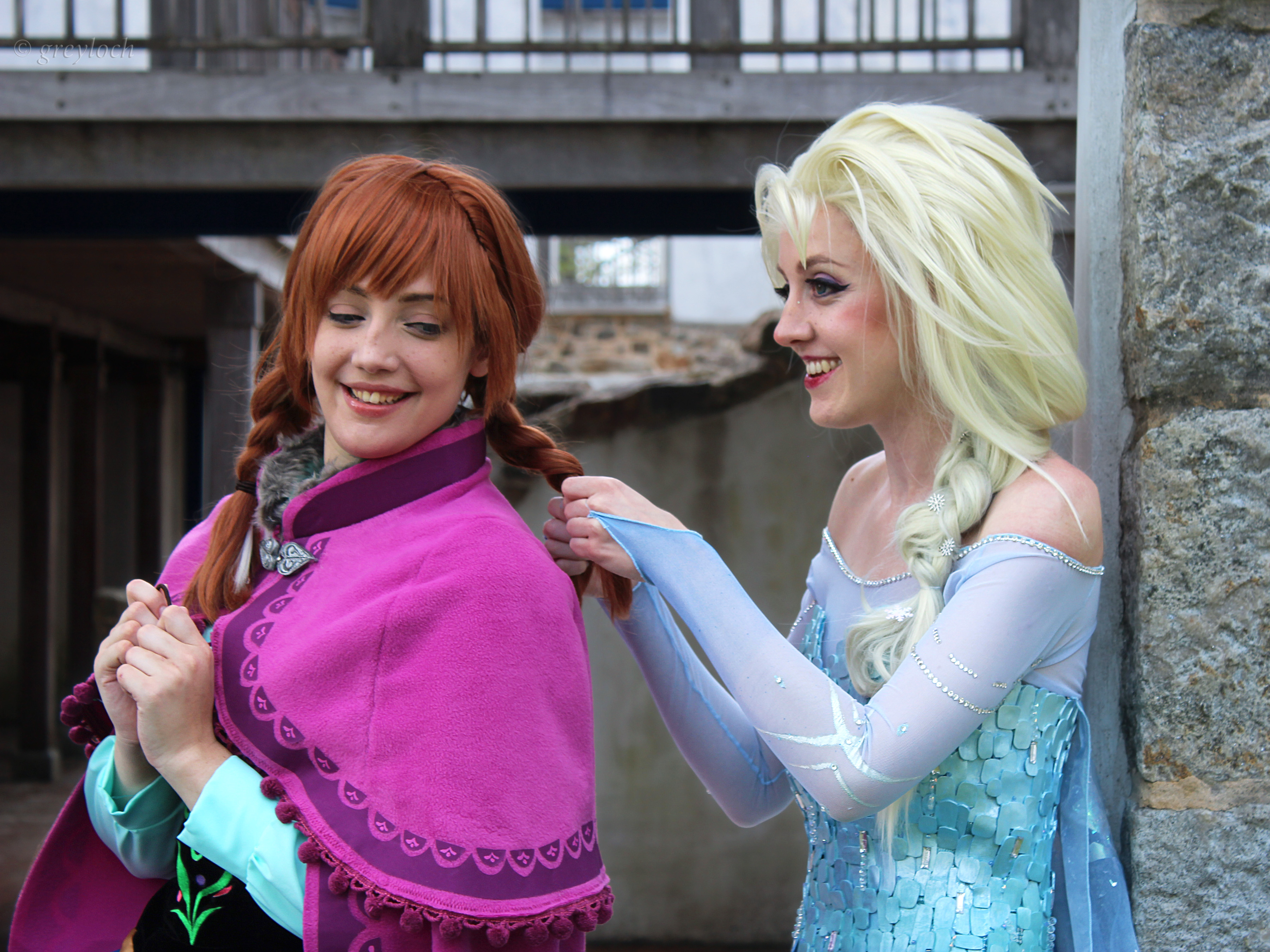 "The characters Anna and Elsa from Disney's "Frozen." Very good movie - great cosplays! The details they put into their costumes were ... wow... Cosplayers: VintageAerith as Anna; SunsetDragon (or Kit) as Elsa. Kit may look familiar as she was Merida and Cinderella from the previous photo-shoots. Think she has a thing for Disney princesses?"